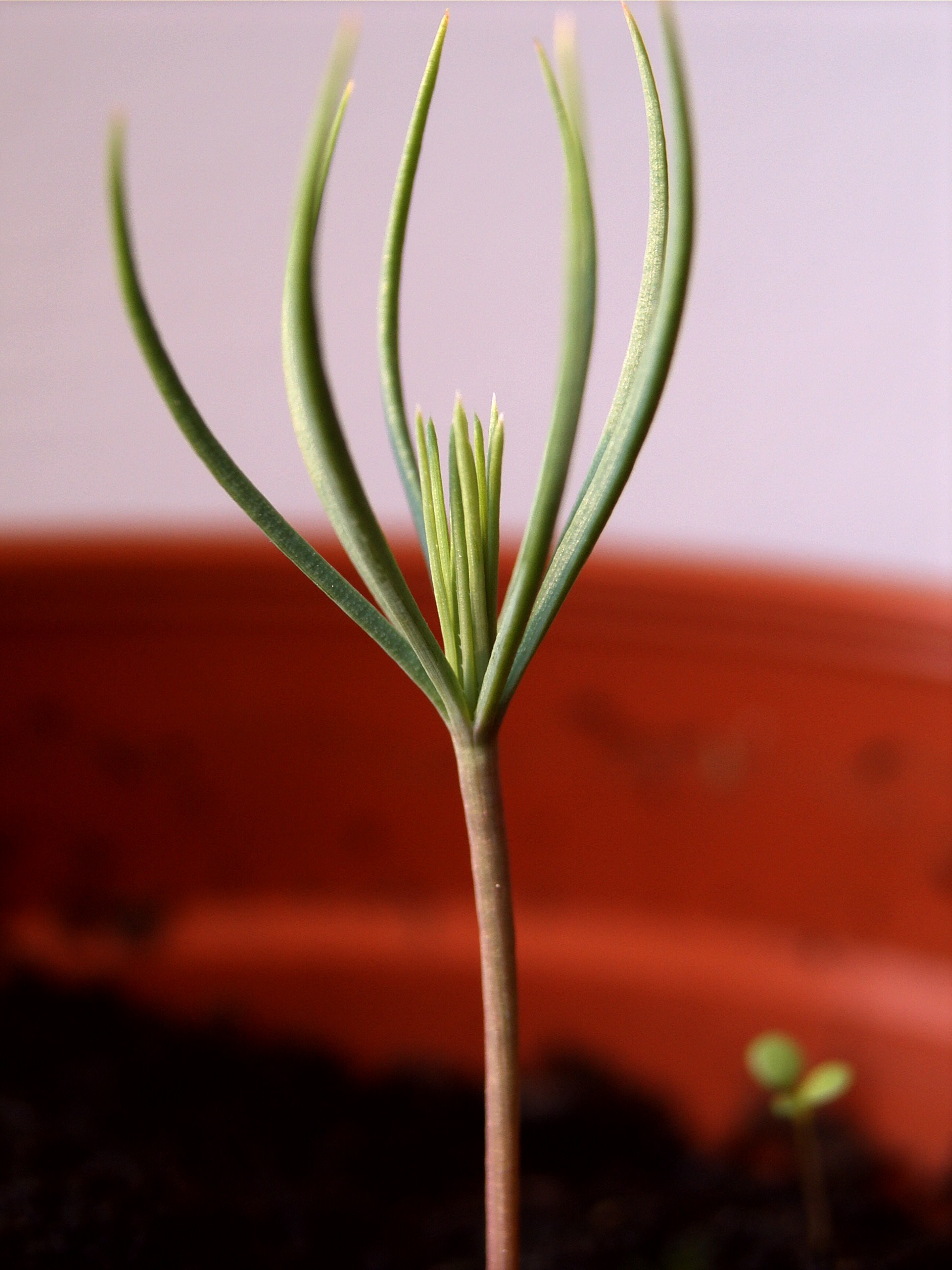 19 day old Pinus halepensis. Closeup.